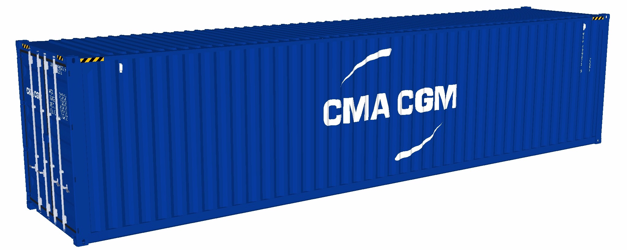 CMA CGM container